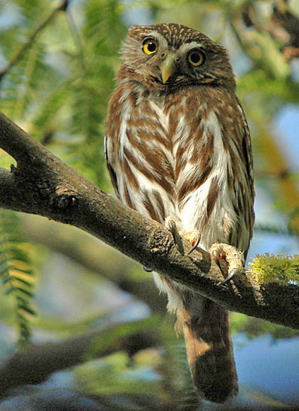 Cactus Ferruginous Pygmy Owl — Glaucidium brasilianum cactorum. Taken in the Sonoran Desert, Sonora state, northwestern México.